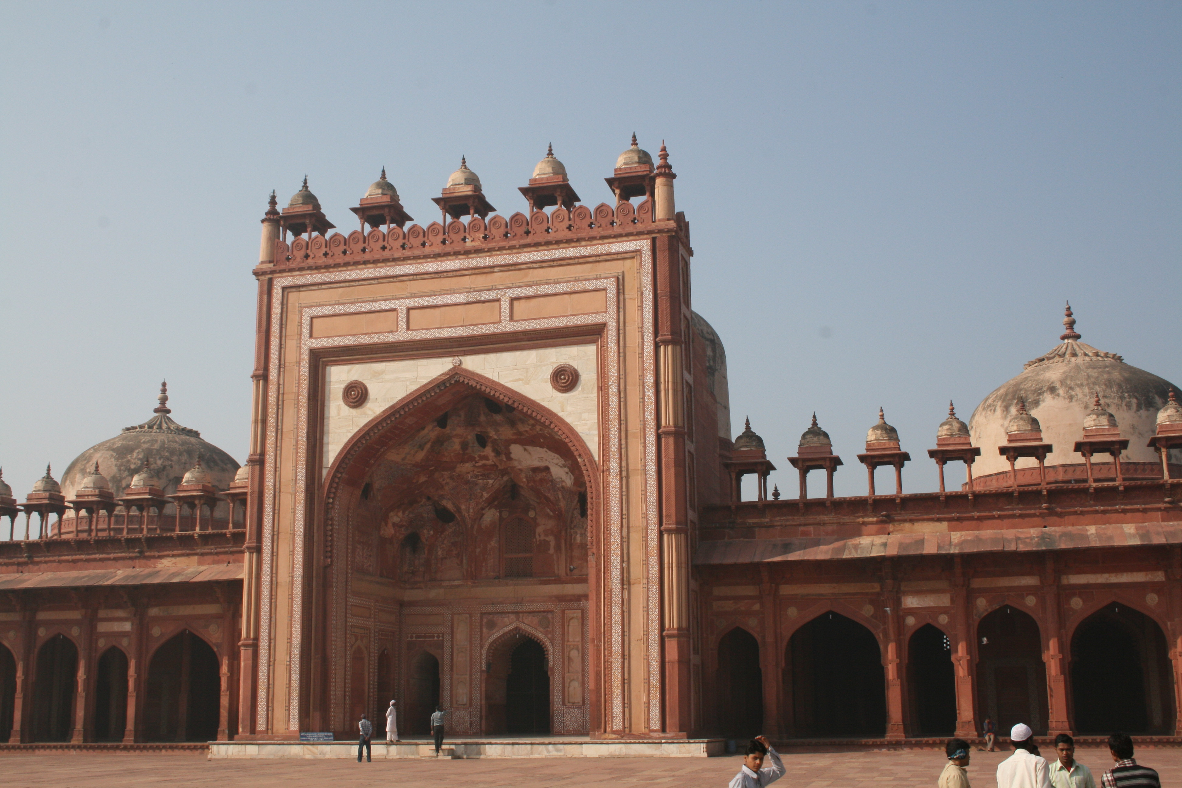 Gates to Jami Masjid, Fatehpur Sikri, India